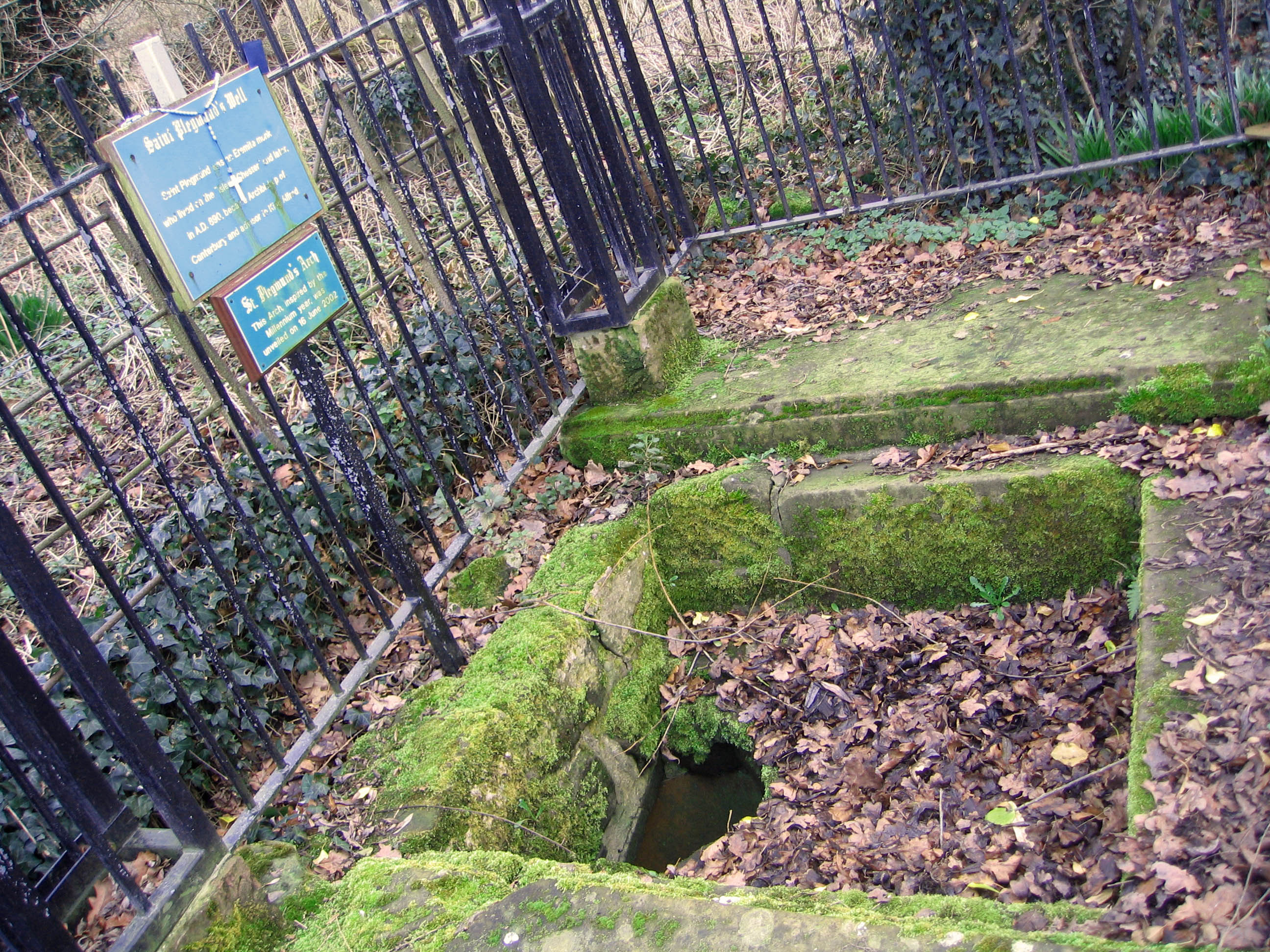 Photograph looking down on the well